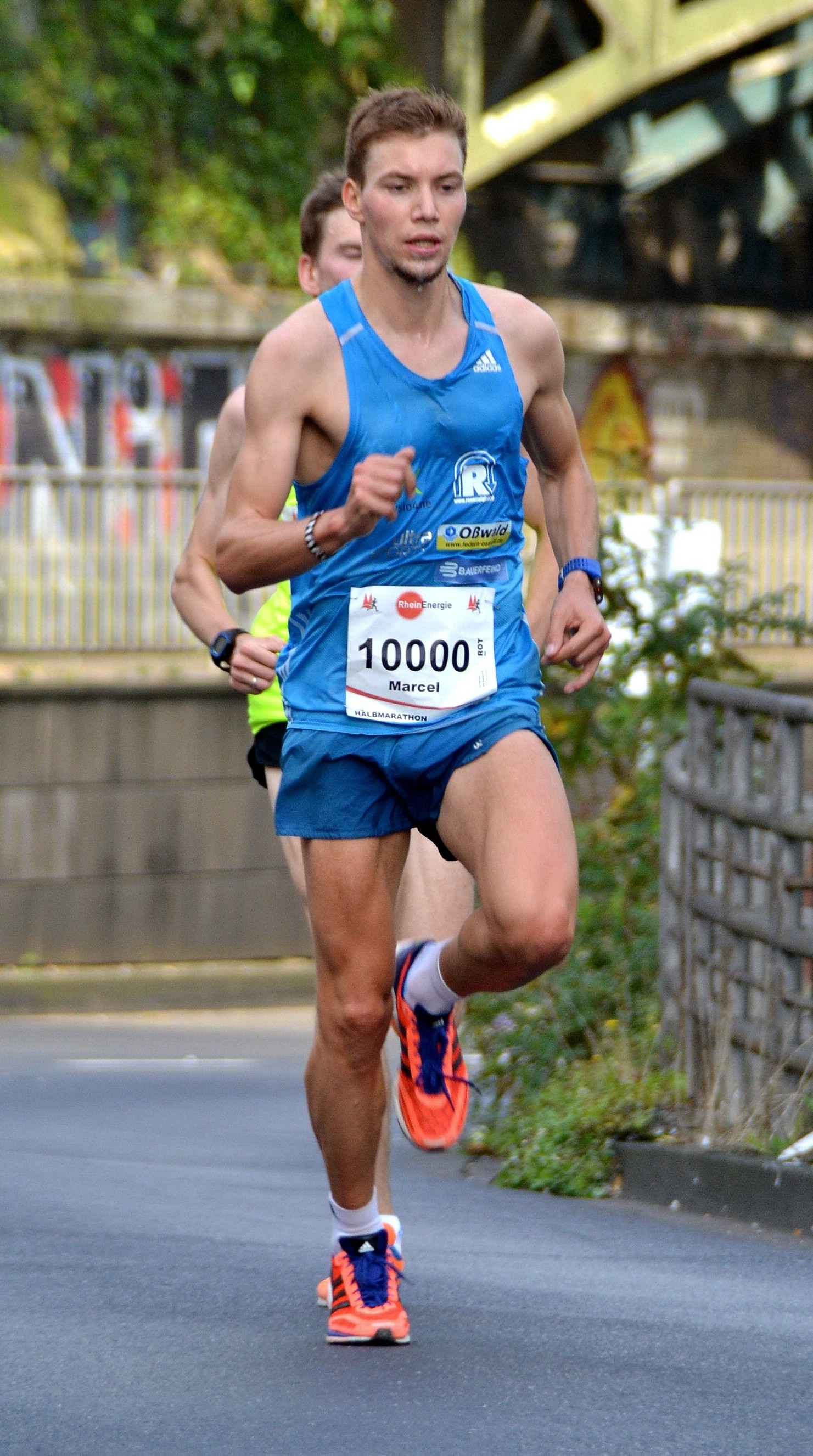 2015 Cologne Marathon – Marcel Bräutigam